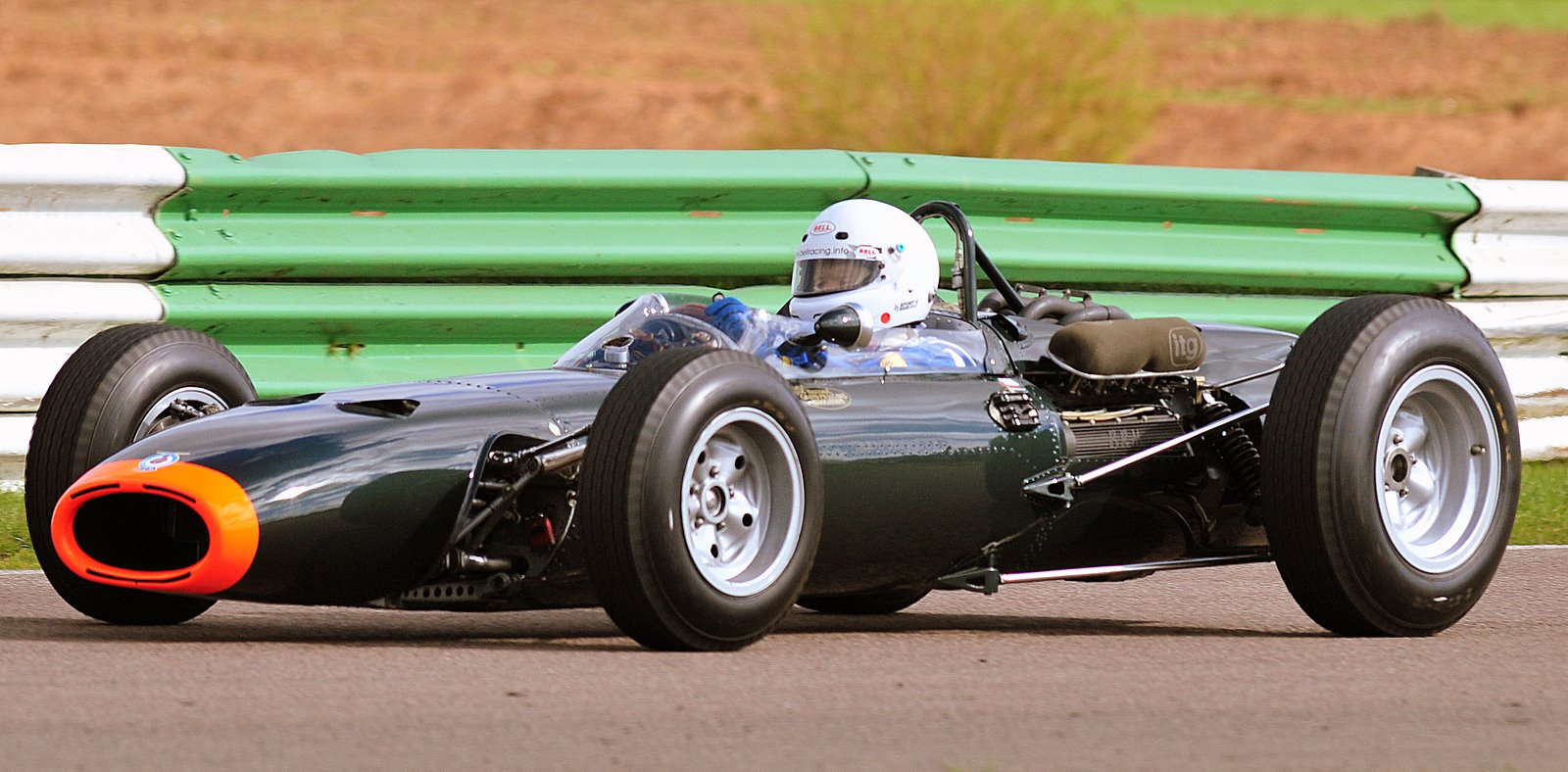 A BRM P261 Formula One car, being tested at Mallory Park, April 2009.